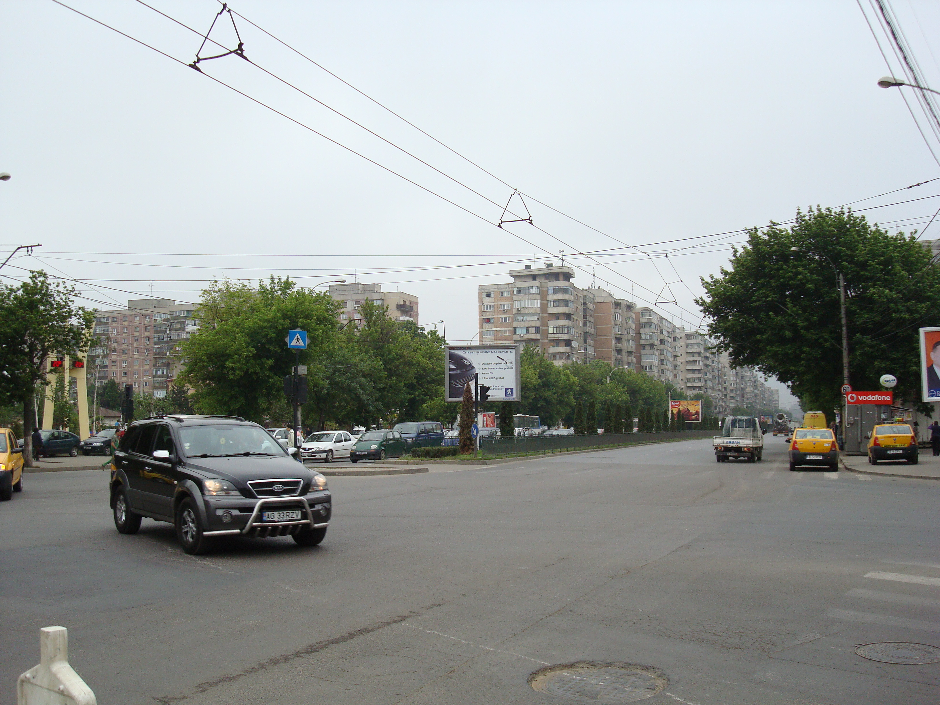 Iuliu Maniu Ave/Valea Cascadelor St (Militari quarter - May 2008) in Sector 6 (Bucharest).